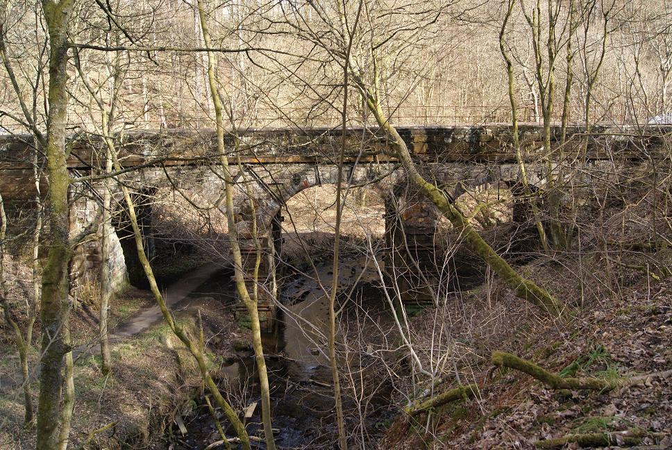 Vault Glen Railway Viaduct Carries the Cumbernauld - Falkirk line over the Red Burn.